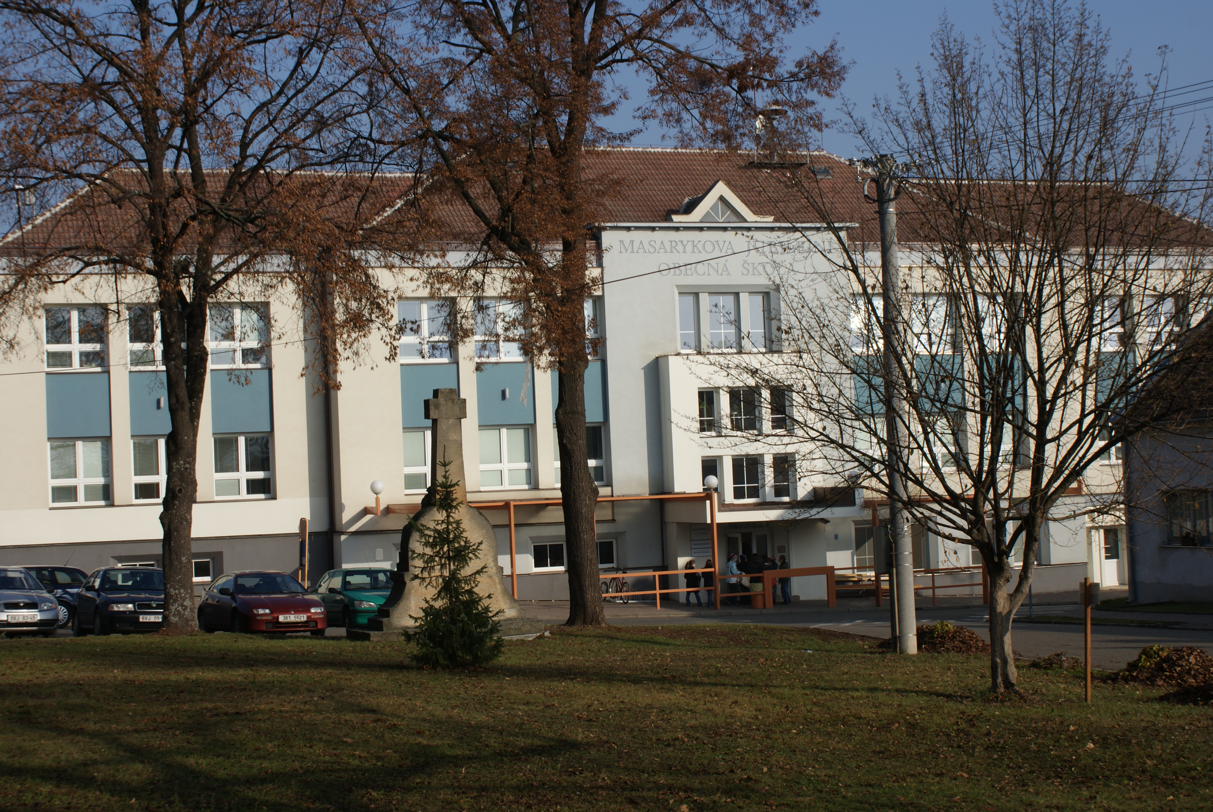 Basic school in Velké Pavlovice